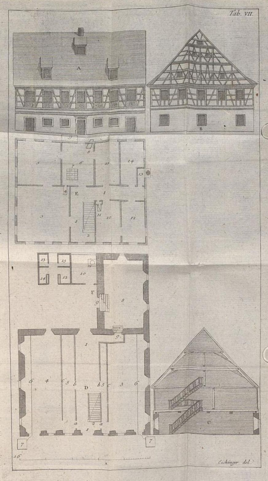 Lehrbuch für die Land- und Haußwirthe, 1782, plate VI